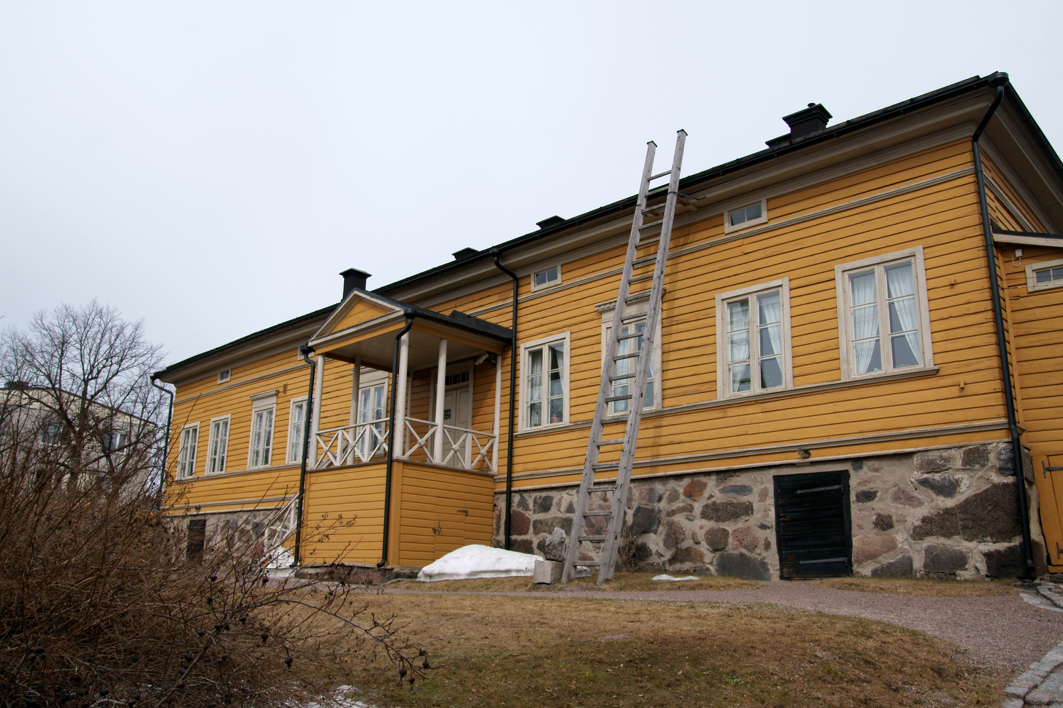 The Johan Ludvig Runeberg home museum in Porvoo.